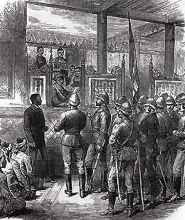 The meeting of General Prendergast and Theebaw at which Moylan was present.